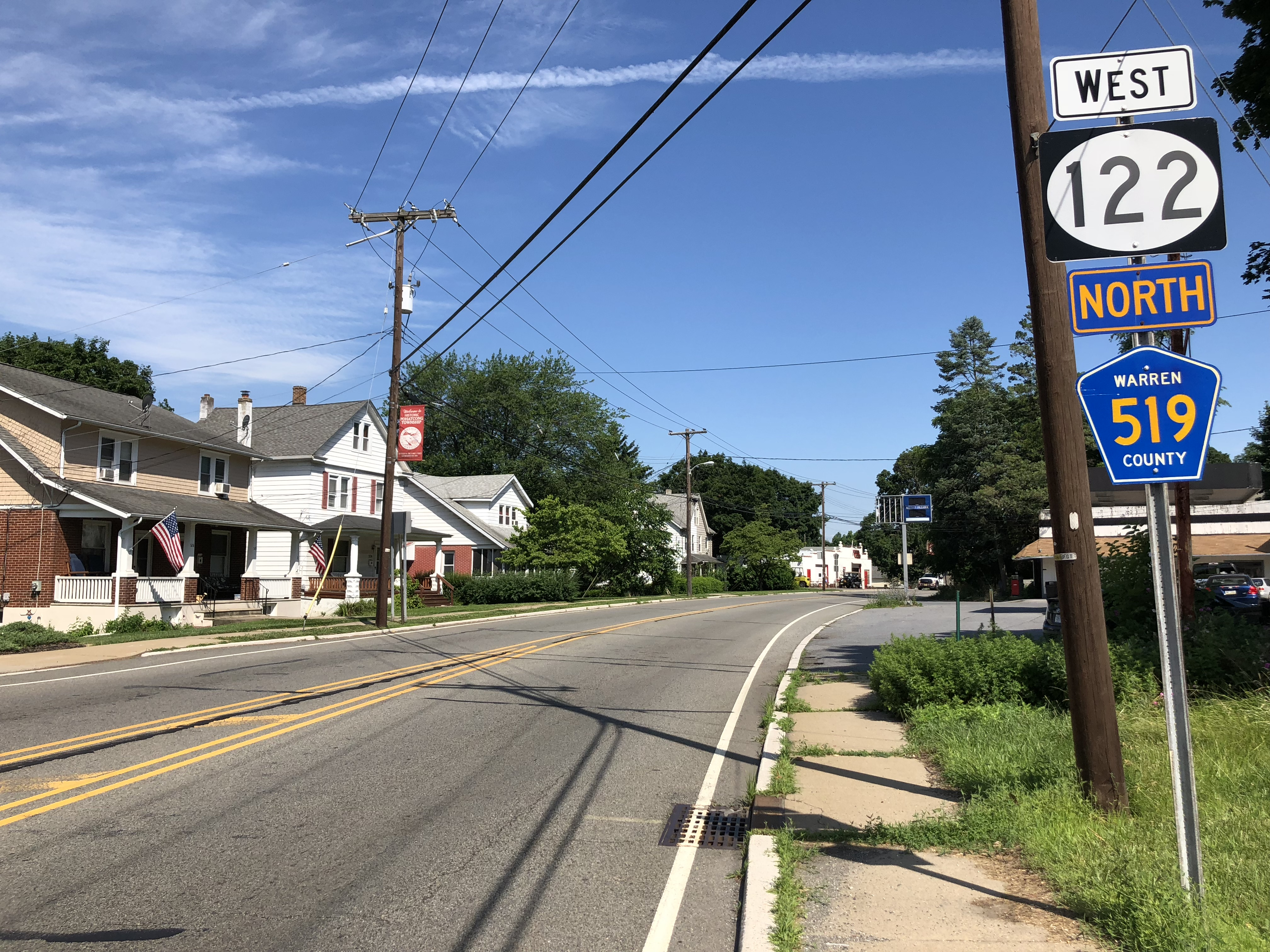 View west along New Jersey State Route 122 and north along Warren County Route 519 (New Brunswick Avenue) just northwest of Hawk Avenue in Pohatcong Township, Warren County, New Jersey